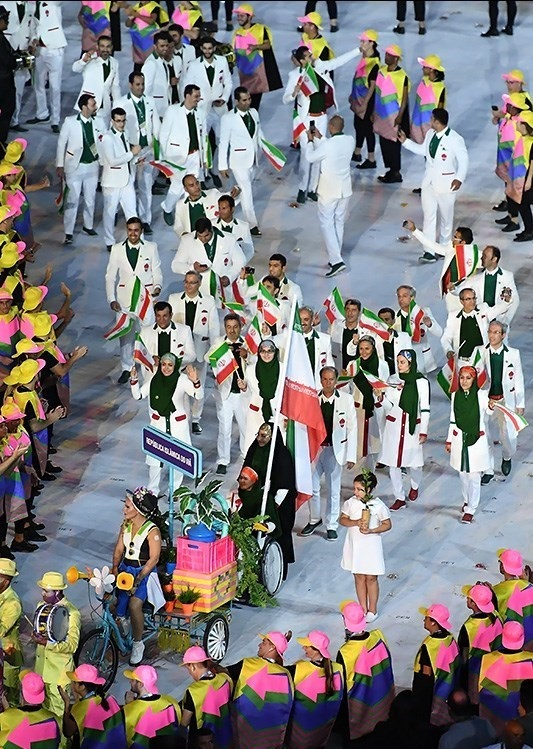 2016 Summer Olympics Parade of Nations, Iran